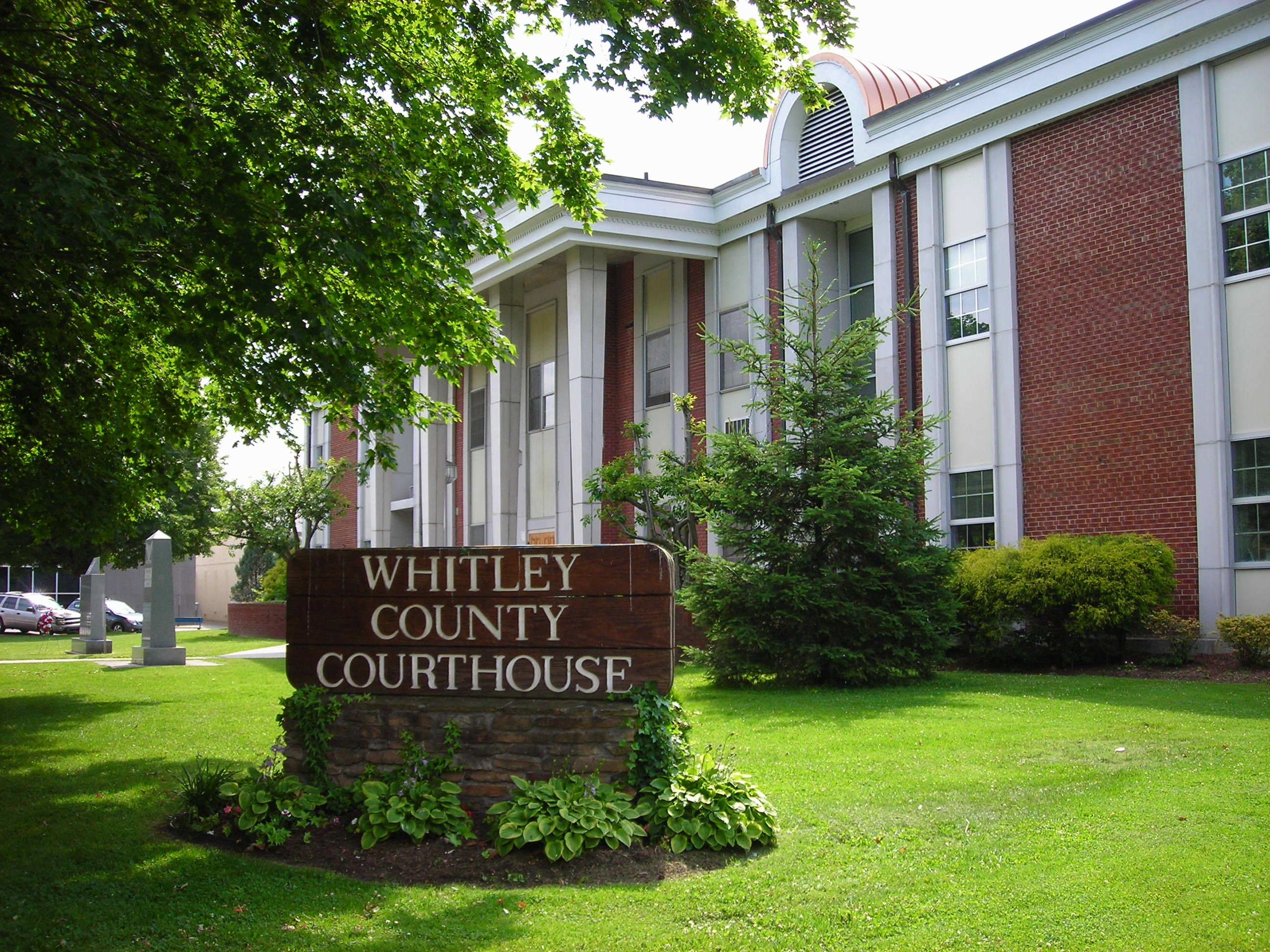 The courthouse in Whitley County, Kentucky, is located just off of Main Street, in downtown Williamsburg.